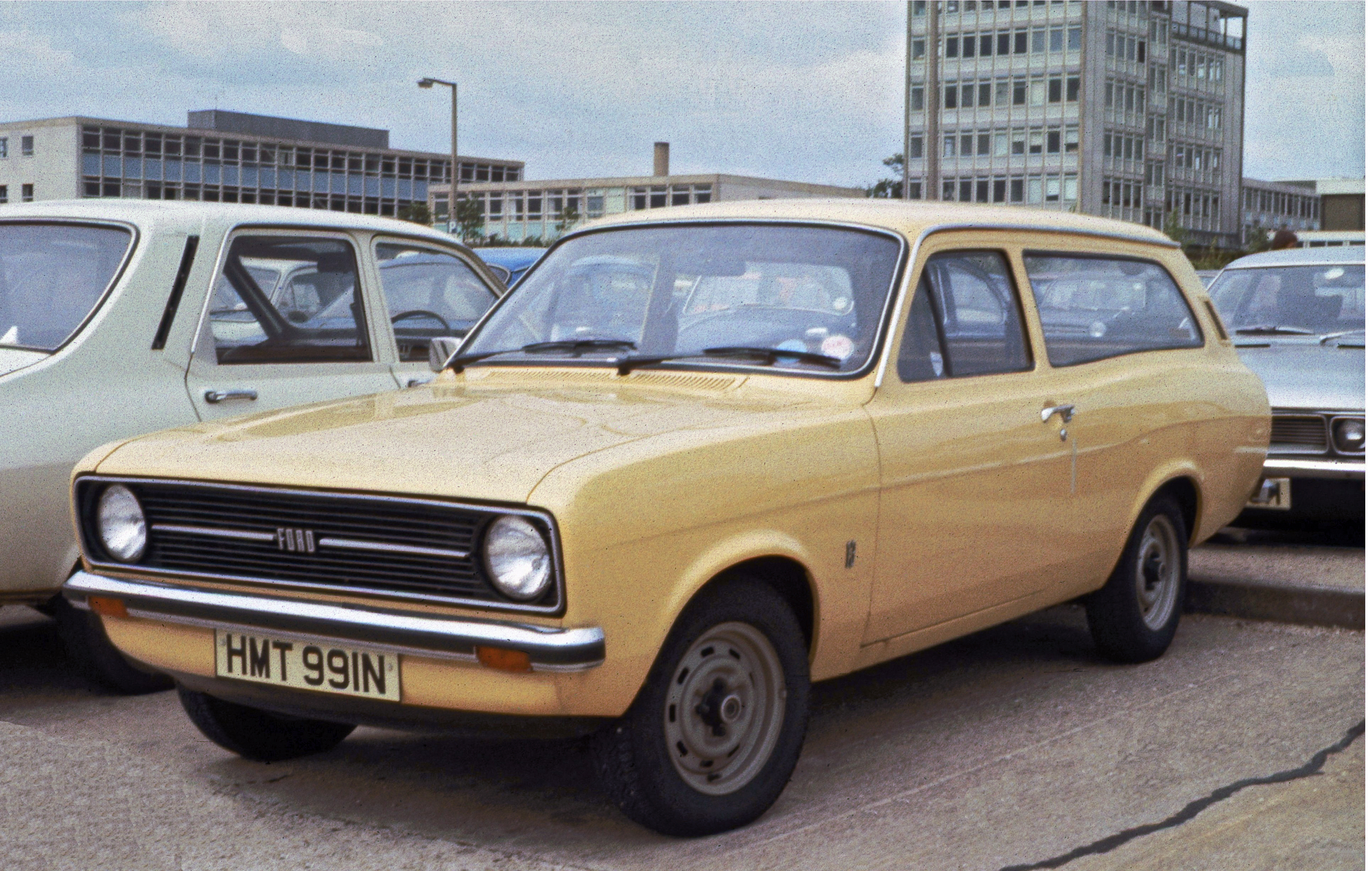 Ford Escort Mark 2 Estate in a Harlow Car Park